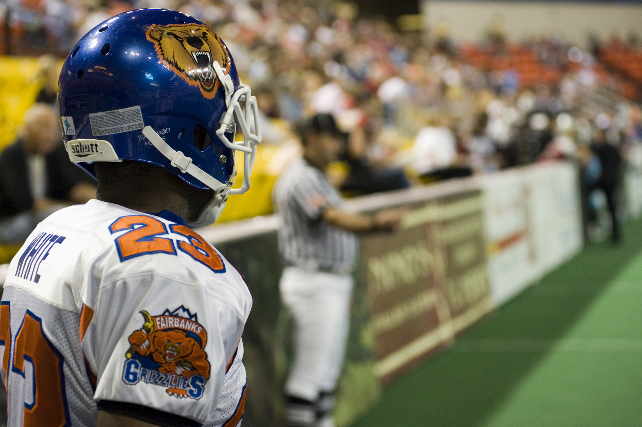 Daudi White, defensive back for the Fairbanks Grizzlies, looks downfield as the Grizzlies get ready to kick off to the Alaska Wild July 9. The Grizzlies topped the Wild that night 54-25. VIRIN: 090709-F-1322C-013